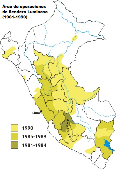 Área de operaciones de Sendero Luminoso (1981-1990)